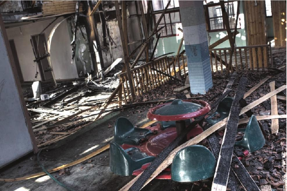 A children’s playroom inside Al-Quds hospital in Gaza City, destroyed on 15 January 2009 by an Israeli white phosphorus attack during Operation Cast Lead.